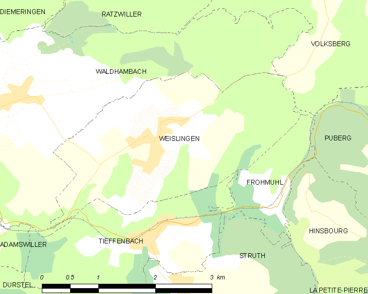 Map of French municipality